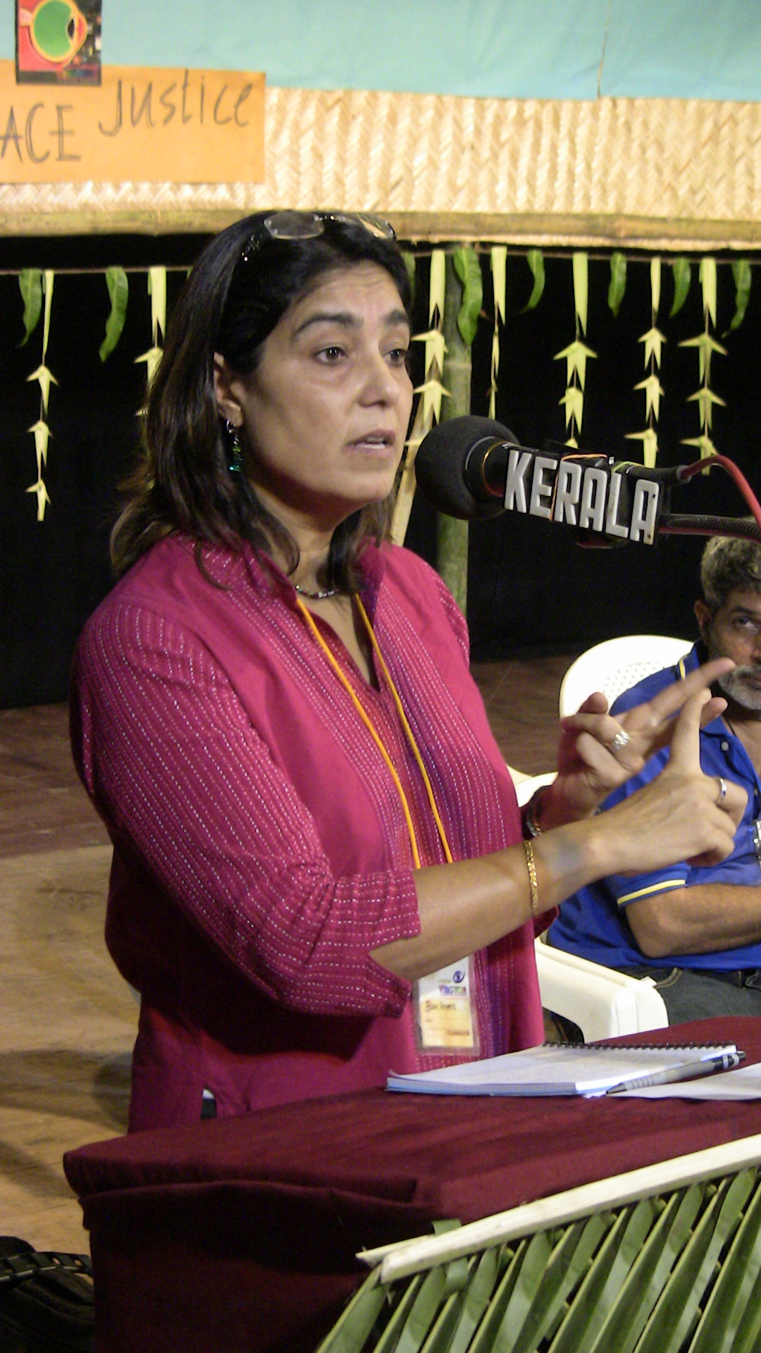 Ruhi Hameed, who specializes as a solo director -camera woman, making films for BBC, Channel 4, Arte and Al Jazeera International, speaking in ViBGYOR 2010 about her retrospective package